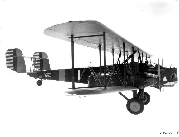 A colorfully painted Curtiss B-2 Condor bomber #1 (AC 29-36) in flight. Only 12 were built. The B-2 used Curtiss Conqueror engines and had a machine gunner in the rear of each nacelle.circa 1931-1932. The aircraft are from the 11th Bombardment squadron based at March Field.